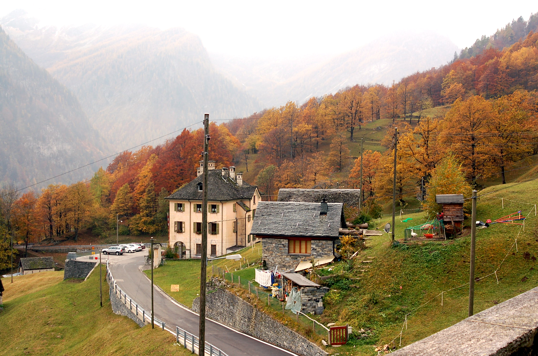 Cerentino's city and police building, looking from the church